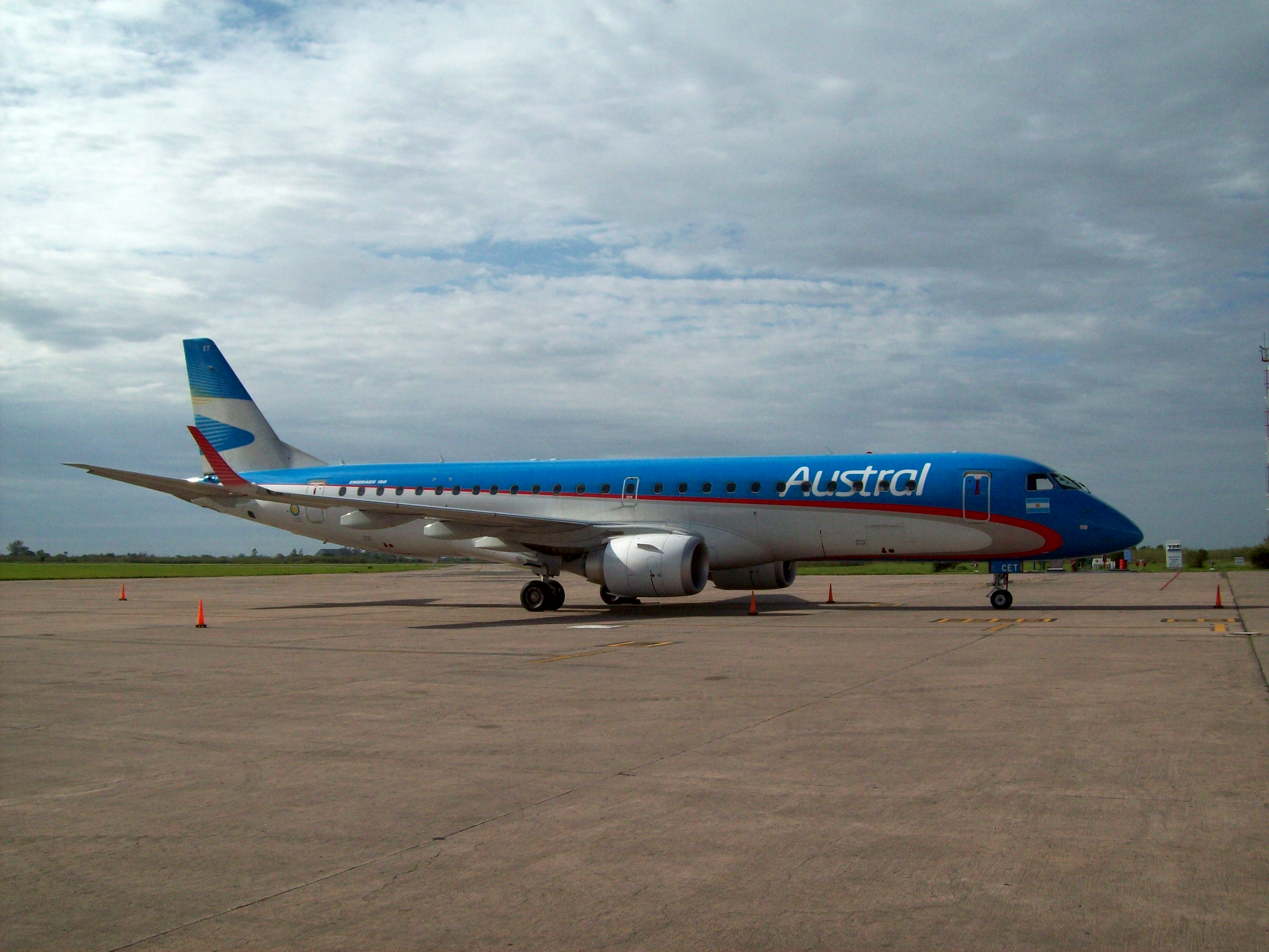 An Austral Embraer 190 standing on the apron at Teniente General Benjamín Matienzo International Airport (TUC / SANT)